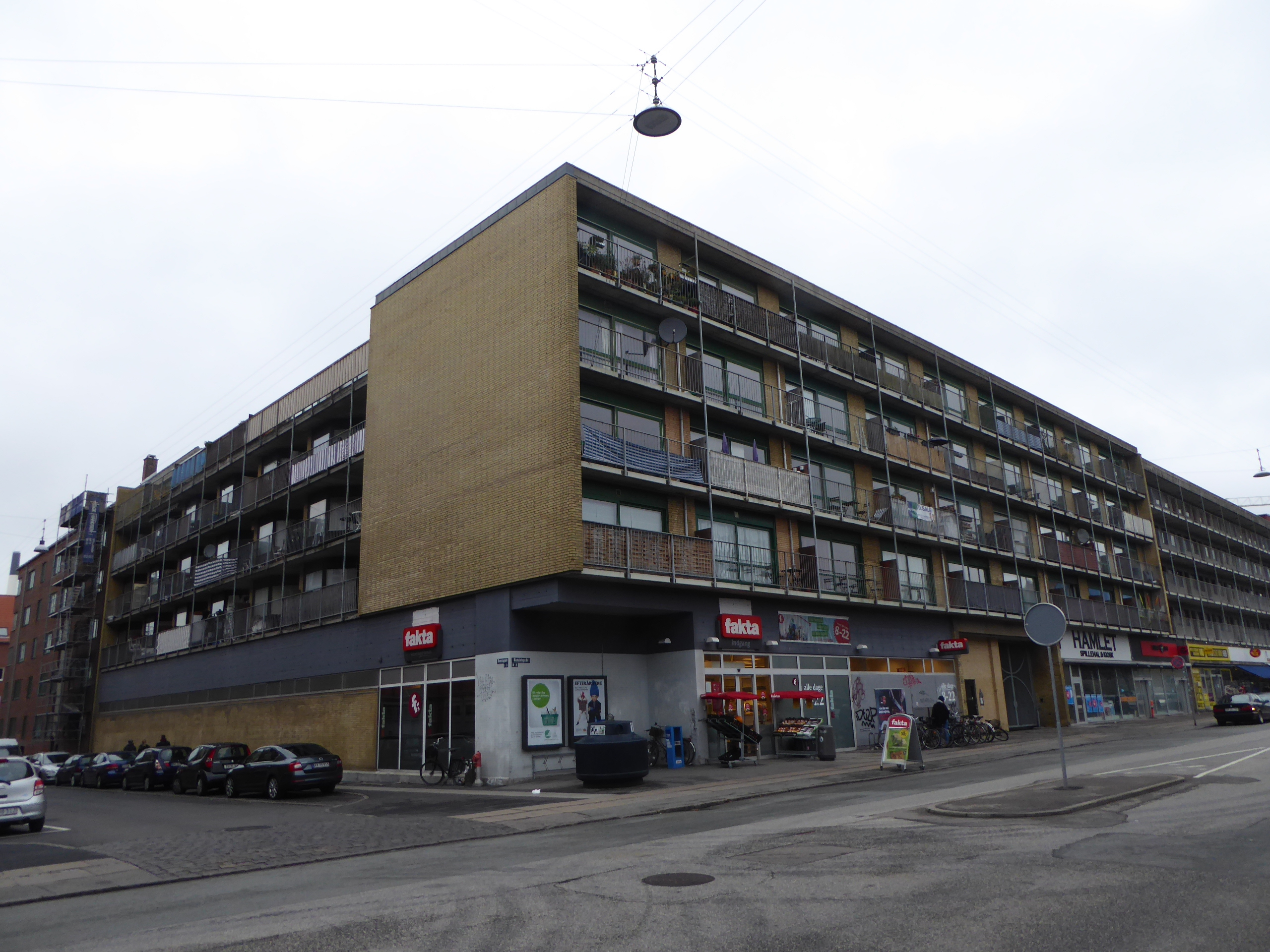 Apartment building at the corner of Fenrisgade and Hamletsgade in Nørrebro in Copenhagen.